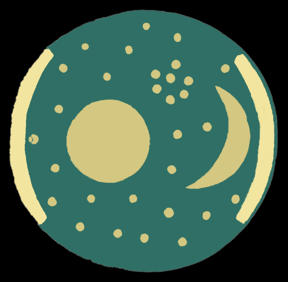 Nebra skydisc, second state (simplified depiction).